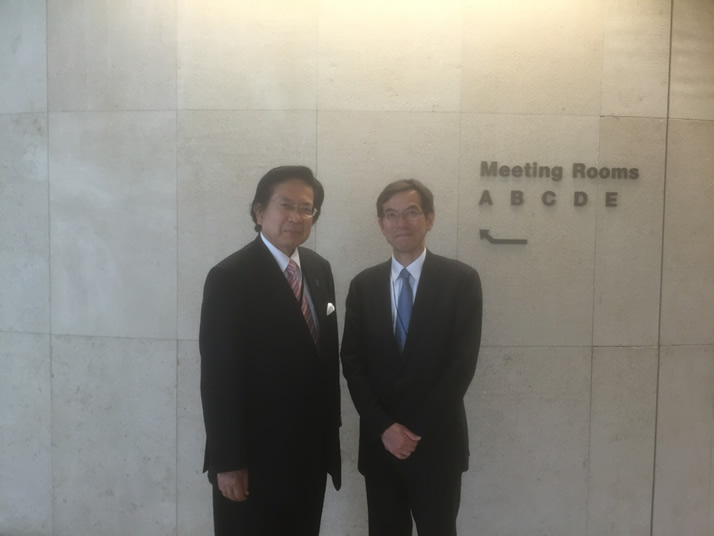 Etsurō Honda, Ambassador to Switzerland, met Yoshihiro Kawai, Secretary General of the International Association of Insurance Supervisors, at the Headquarters of the International Association of Insurance Supervisors in Basel Municipality, Basel-Stadt Canton on August 16, 2016.